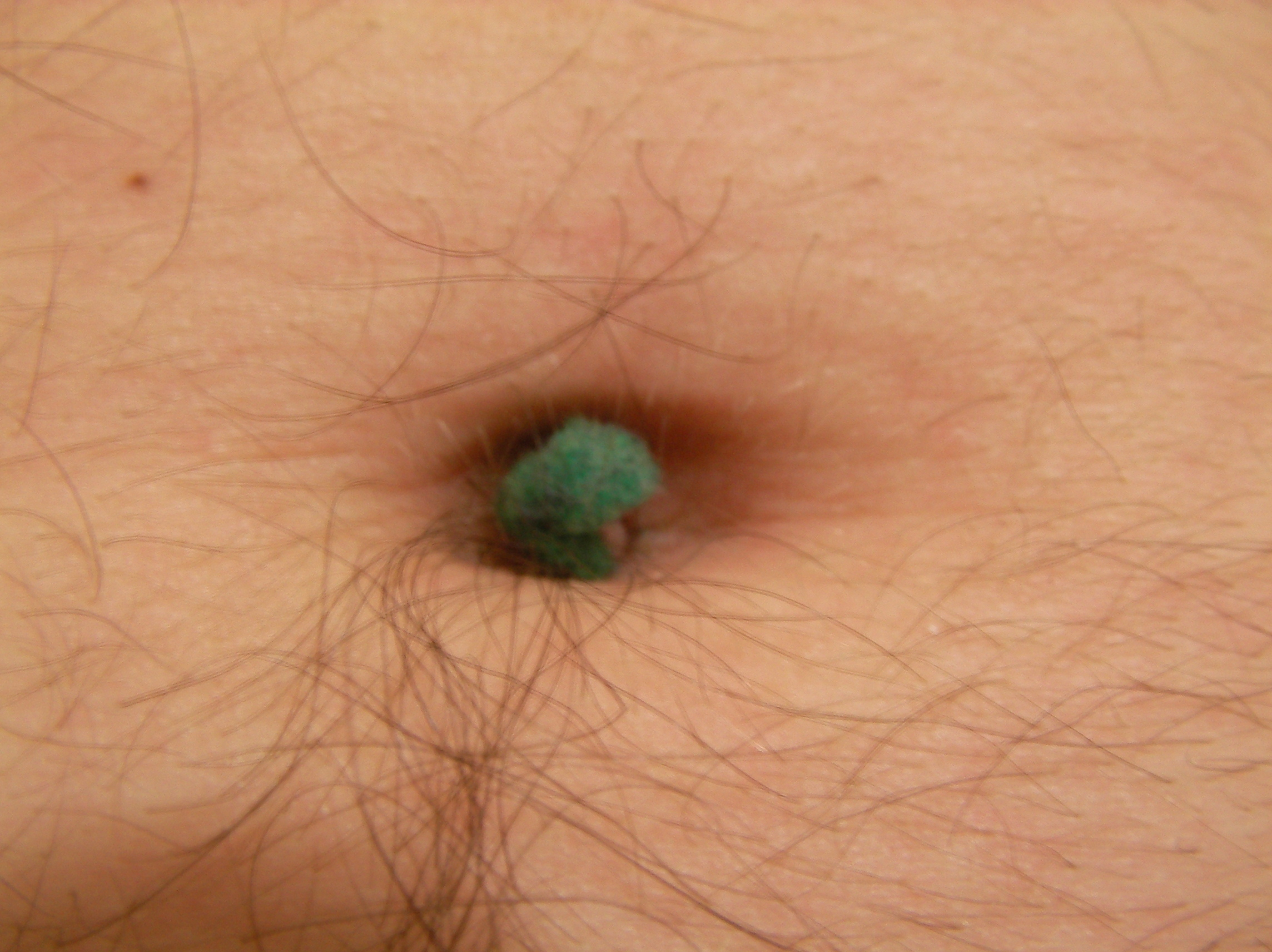 Navel lint